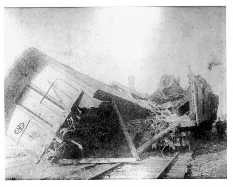 Great Kipton Train Wreck